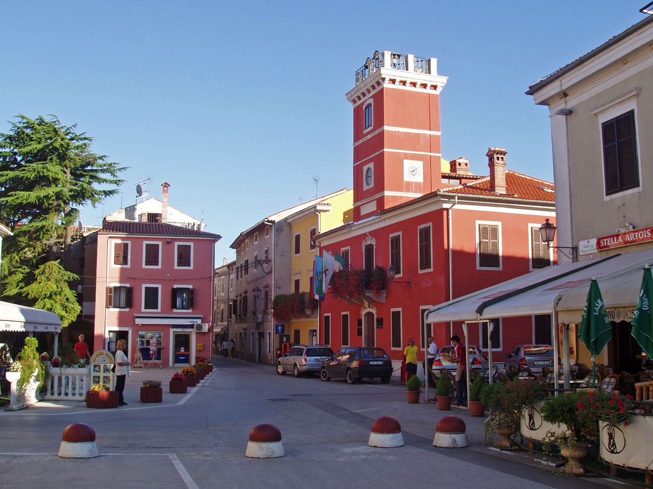 Town Hall and main square, Novi Grad, Croatia. Taken by me on September 2006.